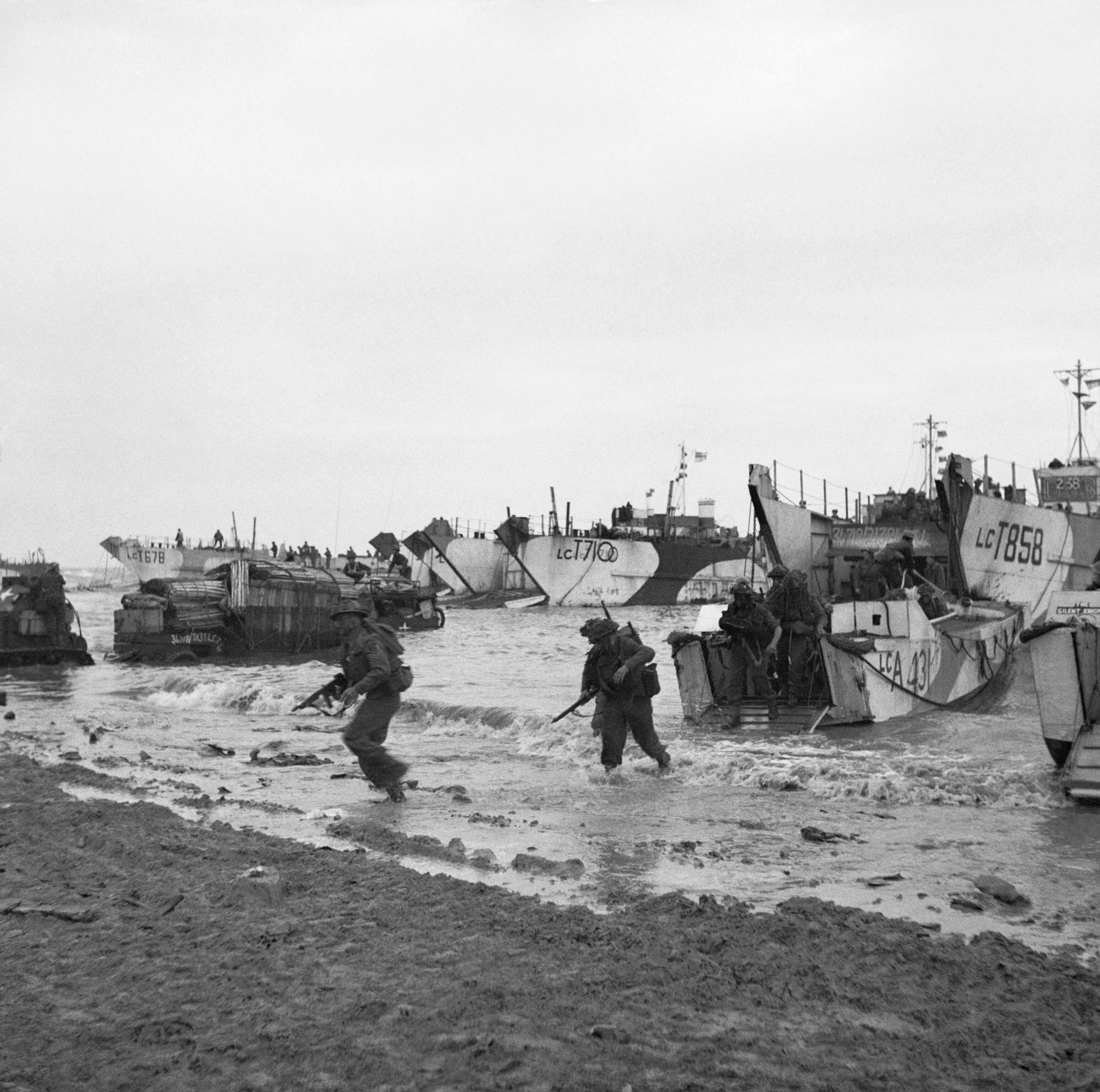 D-day - British Forces during the Invasion of Normandy 6 June 1944 Commandos of 47 (RM) Commando coming ashore from LCAs (Landing Craft Assault) on Jig Green beach, Gold area, 6 June 1944. LCTs can be seen in the background unloading priority vehicles for 231st Brigade, 50th Division.